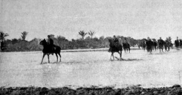 The Canterbury Mounted Rifles crossing the Wadi el Arish 1916